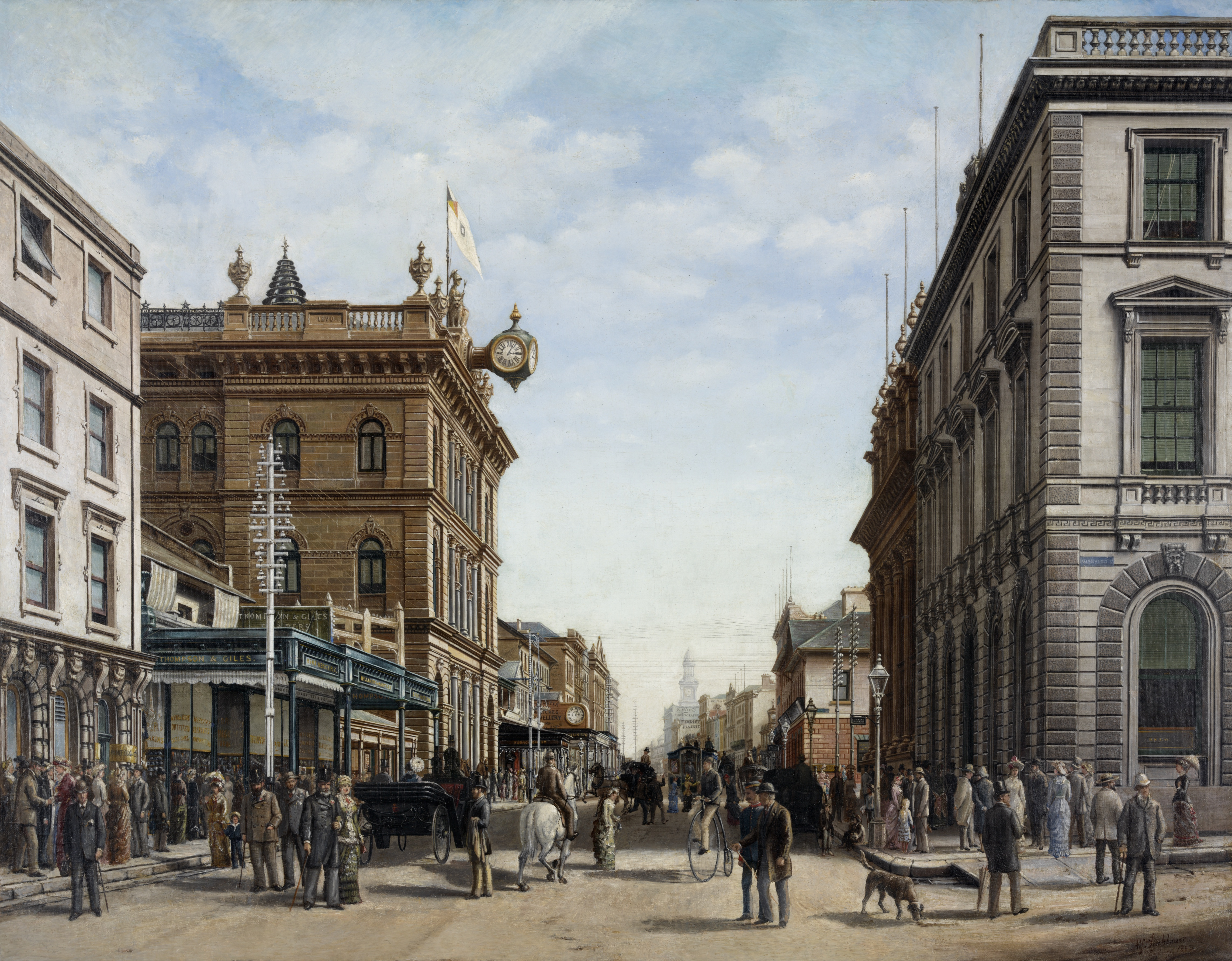 George Street, Sydney, 1883, oil on canvas, 71.5 x 91.5 cm